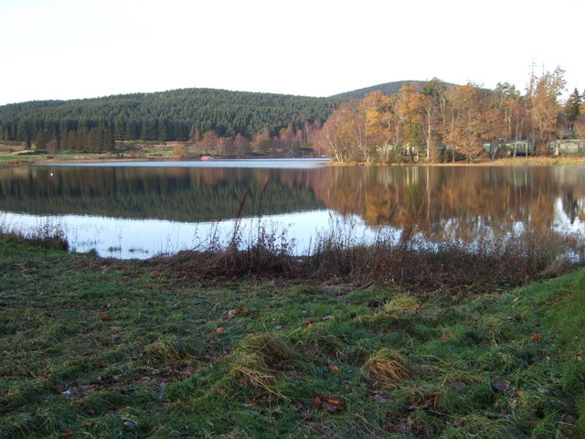 A northerly view across Loch of Aboyne